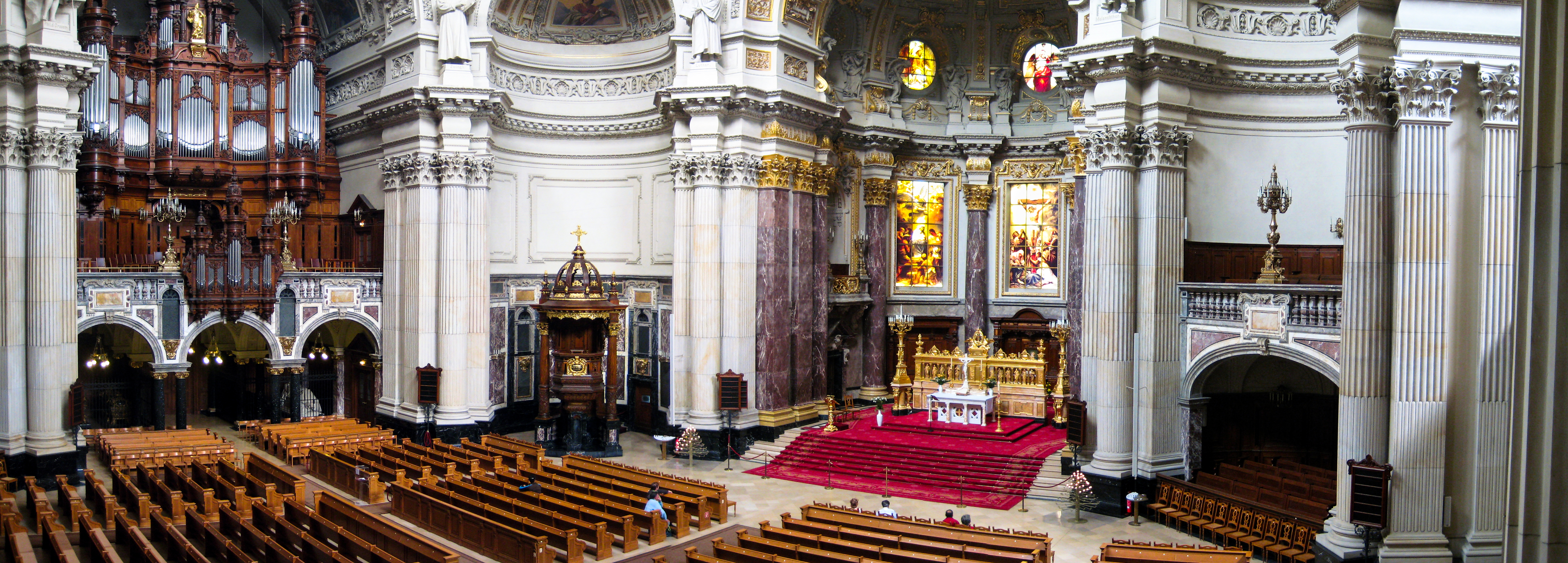 Panoramic photograph of the interior of the Berlin Cathedral (Berliner Dom).